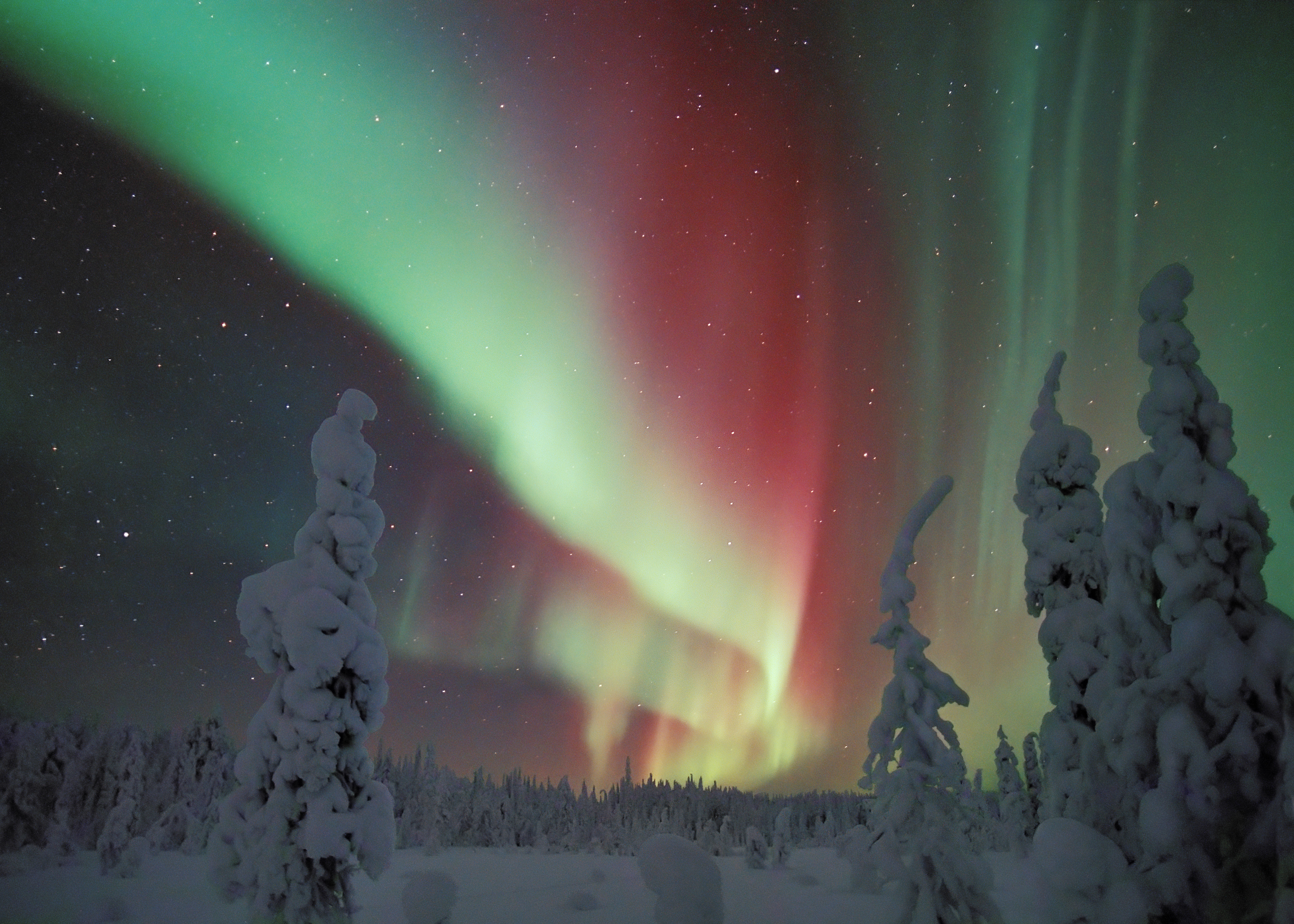 Northern Lights in Snowy Forest in Finland